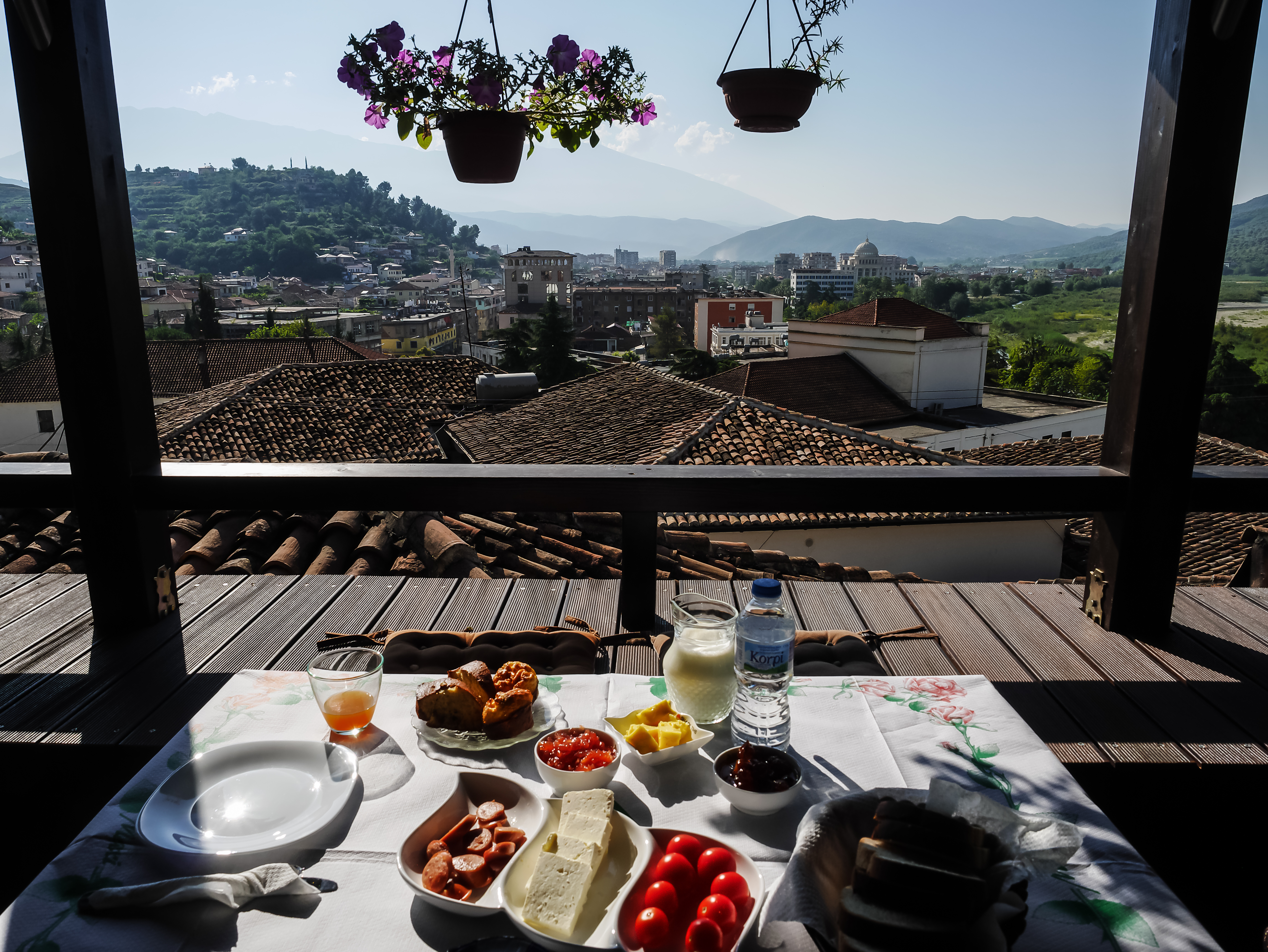 Breakfast in Berat